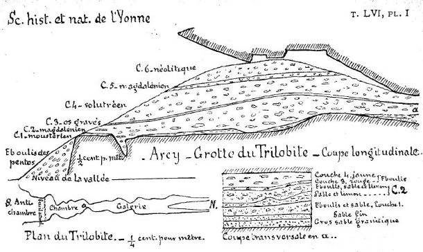 Grotte du Trilobite, Arcy-sur-Cure, Yonne, Burgundy, France. Taken from Abbé Alexandre Parat, Les Grottes de la Cure (côte d'Arcy) : La grotte du Trilobite, plate 1 (between pp. 32-33). • Top drawing : longitudinal-section drawing of the cave profile with its archaeological layers. « Niveau de la vallée » is the level of the valley (river Cure).The scale is ½ cm/m (see bottom left of that drawing). From left to right : « Eboulis des pentes » (« slope scree », a large part of it coming from the collapse of the advancing part of the roof). C1 : Mousterian. C2 : Magdalenian (this was a mistake, as believed at the begining of the 20th century. The lower part of the C2 layer corresponds to the Châtelperronian and its upper part to the Aurignacian) ; C3 : engraved bones (« os gravés ») (Gravettian period) ; C4 : Solutrean ; C5 : Magdalenian (in its right place) ; C6 : Neolithic. • Bottom left drawing : map of the cave. North is to the right side (as shown with the « N » at the end of the gallery in the bottom left drawing). From south to north : « antichambre » (antechamber) ; “chambre” ; gallery. Point « α » (cross-section point, bottom right drawing) is at the end of the chamber, at the entrance of the gallery. • Bottom right drawing : cross-section drawing of the cave's archaeological layers found at point « α » (see bottom left drawing). From bottom to top : « Gros sable granitique » (large granitic sand) ; « Sable fin » (fine sand) ; « Eboulis et sable, couche 1 » (scree and sand, layer n° 1) ; « Sable et limon » (sand and limon) ; « Eboulis, sable et limon » - both latter layers shown as « C2 layer ; « Couche 3, rouge (red) ; « Couche 4, jaune » (yellow) - both latter layers shown as « Eboulis » (scree).